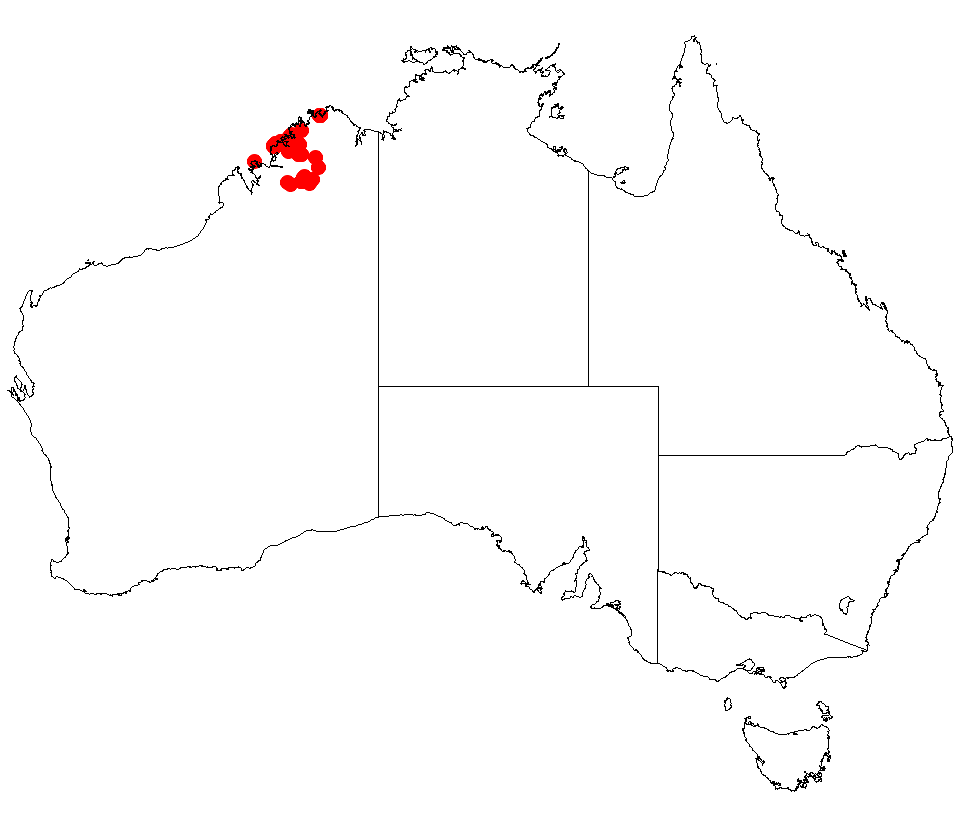 Acacia adenogonia Occurrence data from Australasia Virtual Herbarium downloaded from on 8 December 2018